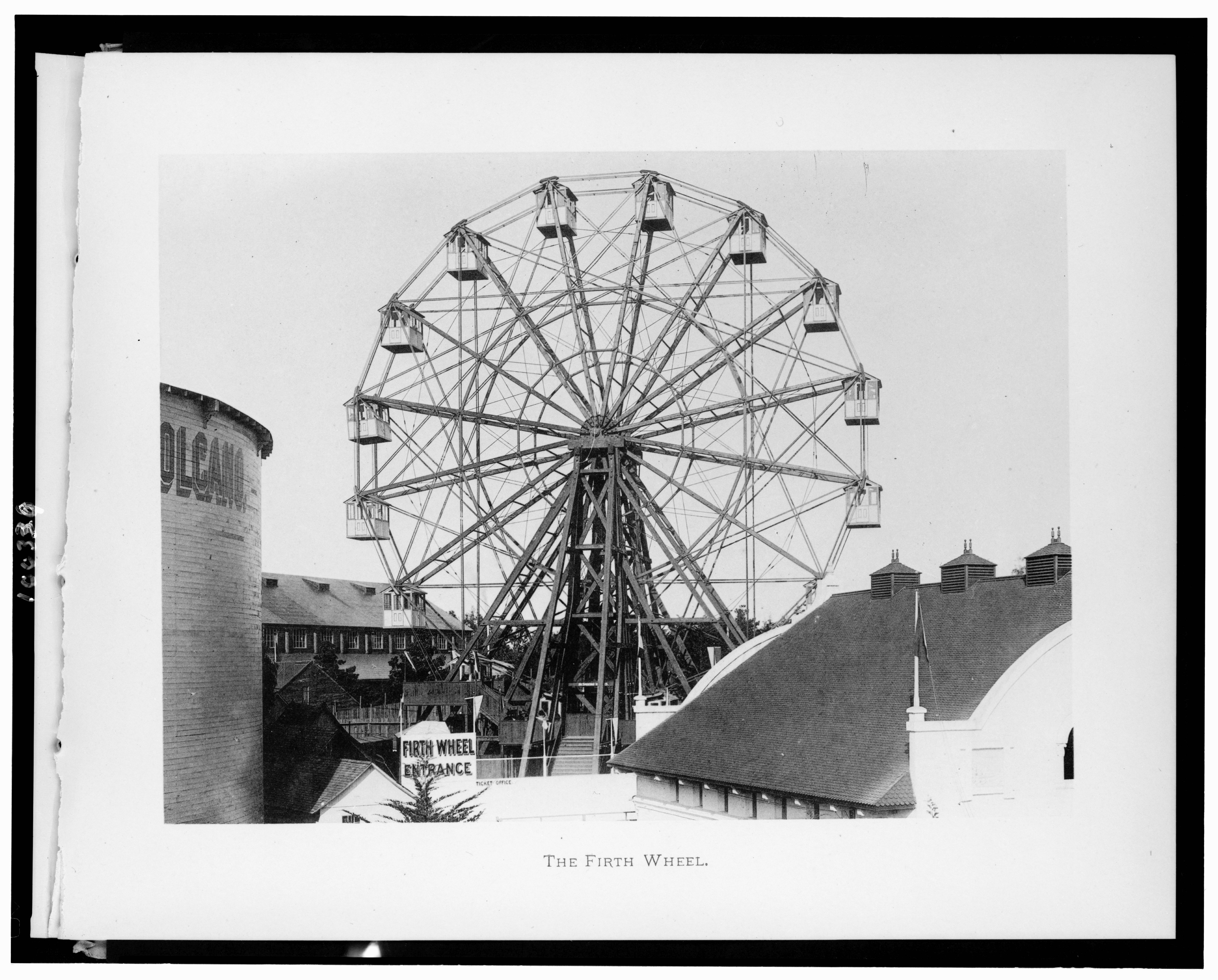 Title: The Firth wheel Abstract/medium: 1 photomechanical print : photogravure.